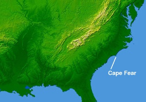 Cape Fear © 2004 Matthew Trump